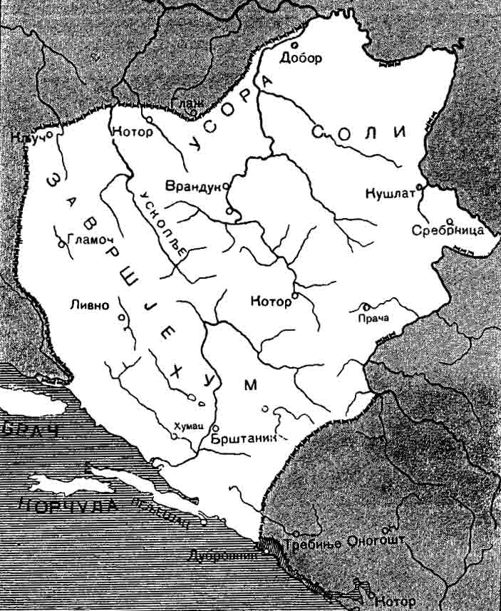 Bosnia during Ban Stefan Kotromanić, V. Ćorović